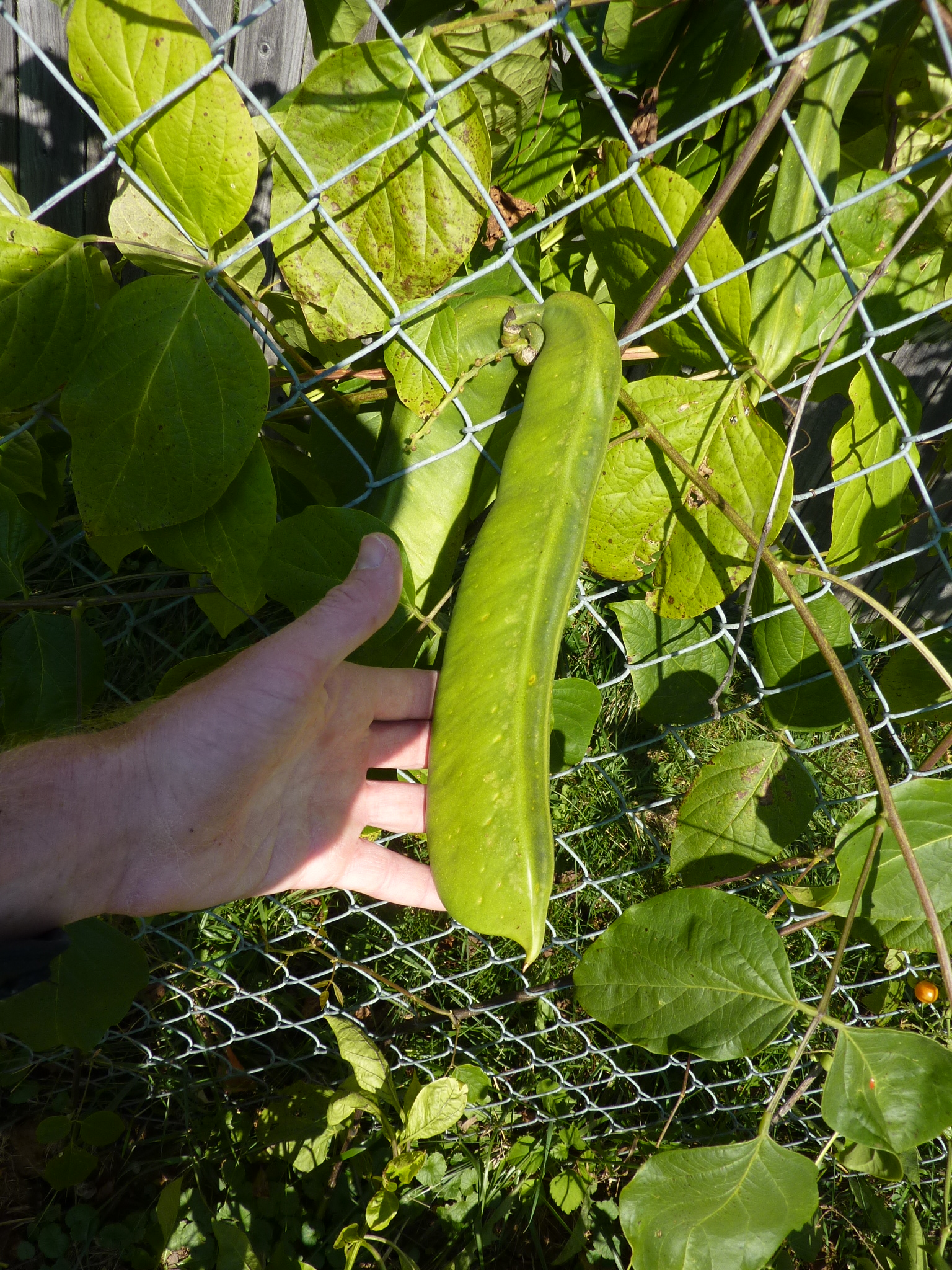 Large pods of a Chinese bean plant (known as dao dou, although it's a fairly generic name), grown in Bloomington, Indiana. Apparently, this is Canavalia gladiata ("sowrd bean")